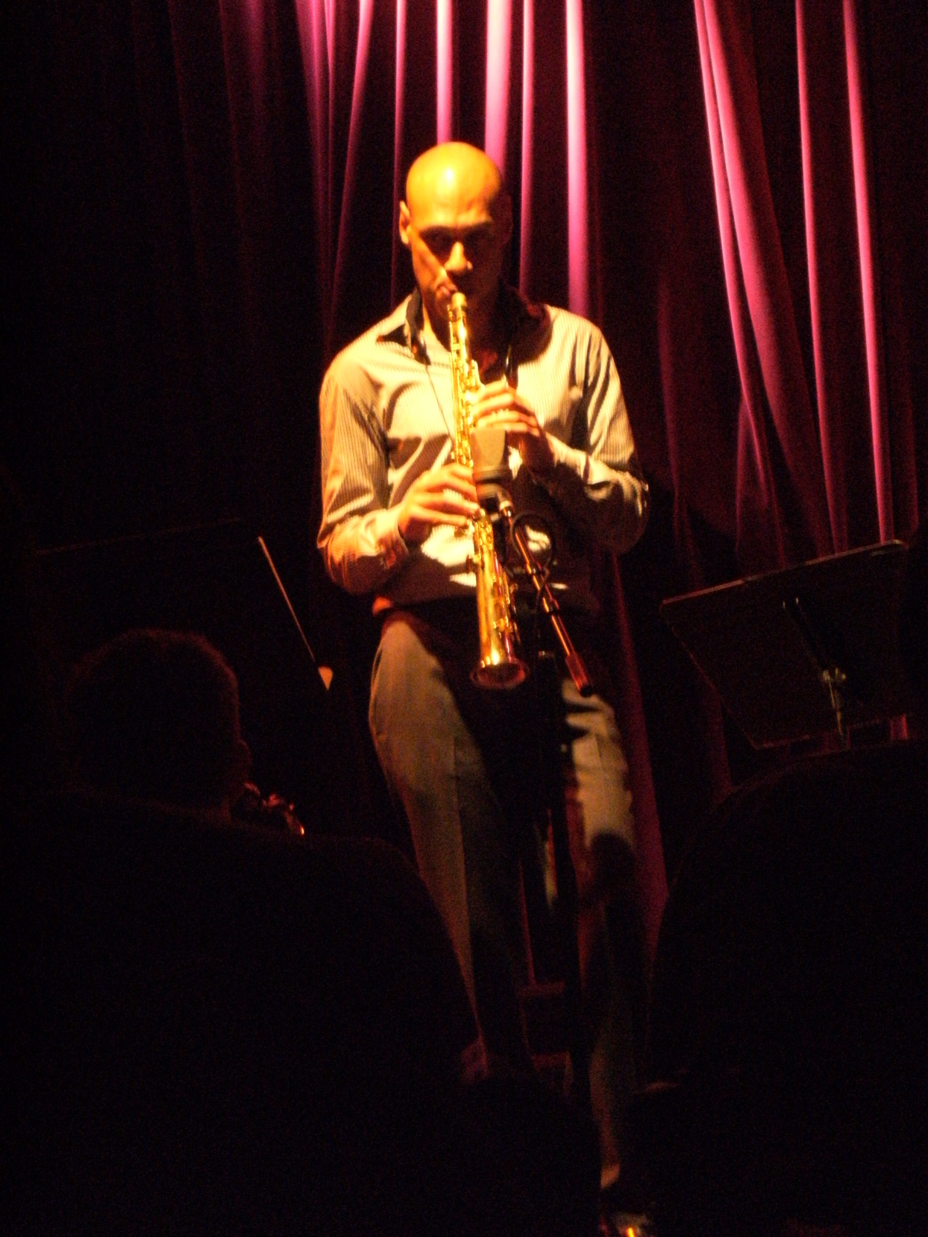 Joshua Redman at Jazz Alley, Seattle. April 11 2009.